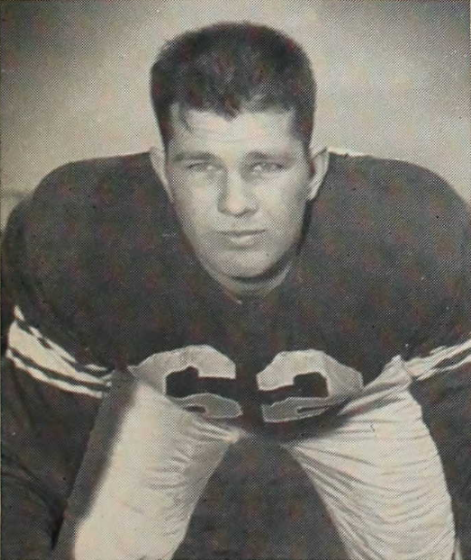 Photograph of University of South Carolina athlete Frank Mincevich